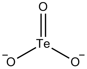 structure of tellurite ion made with ChemDraw